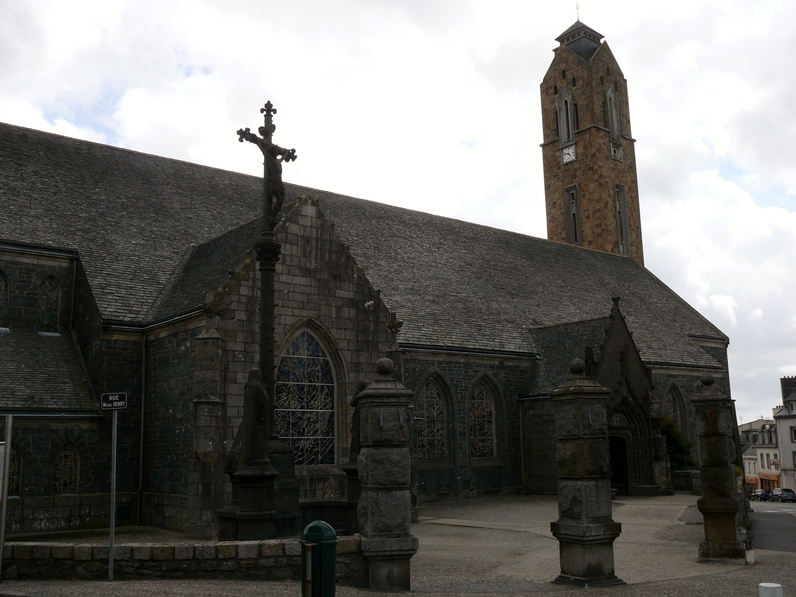 the parish church in Guipavas